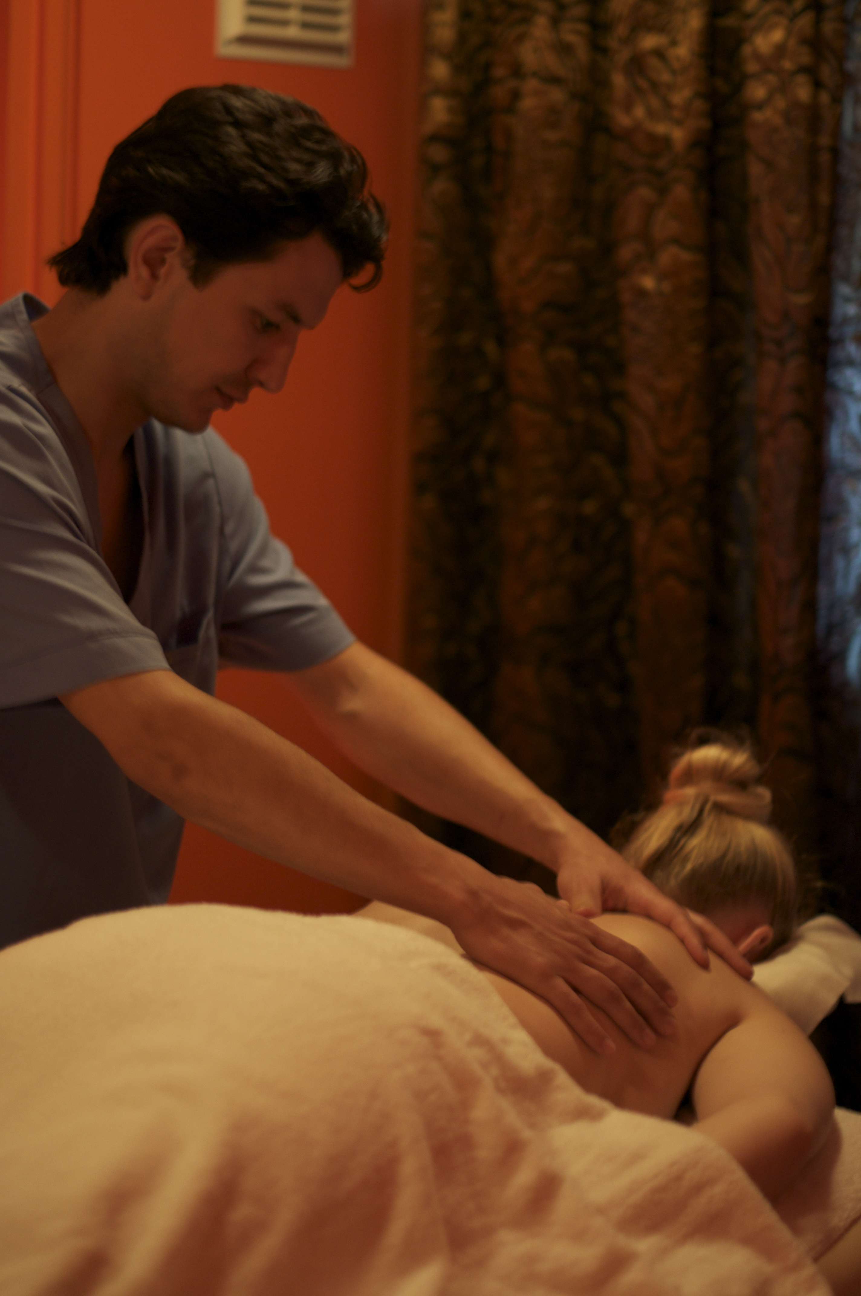 Violet Hill Commission for Jayfresh ( More photos from BenJam